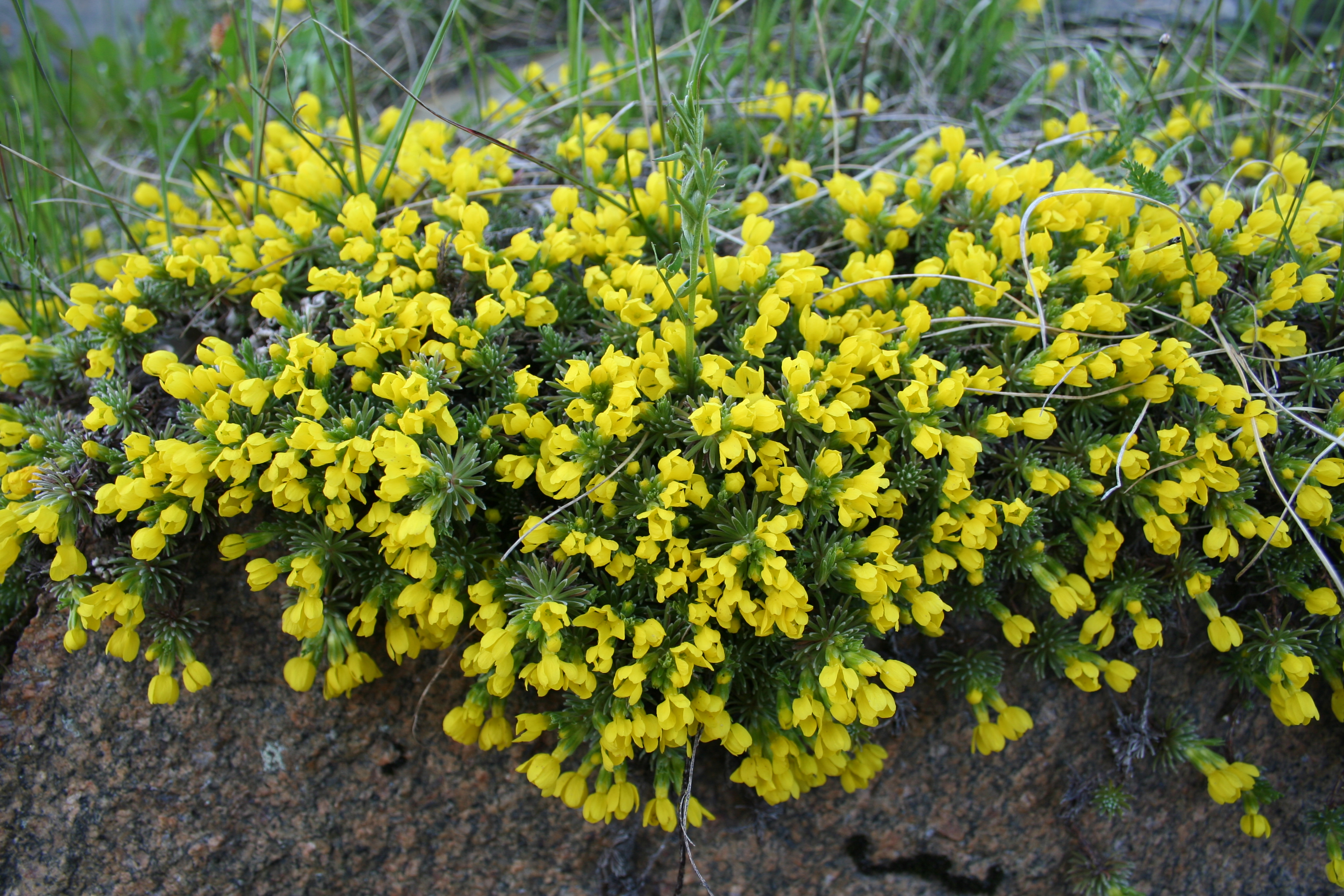 Blooming Vitaliana primuliflora. Oulu University Botanical Gardens, Finland.